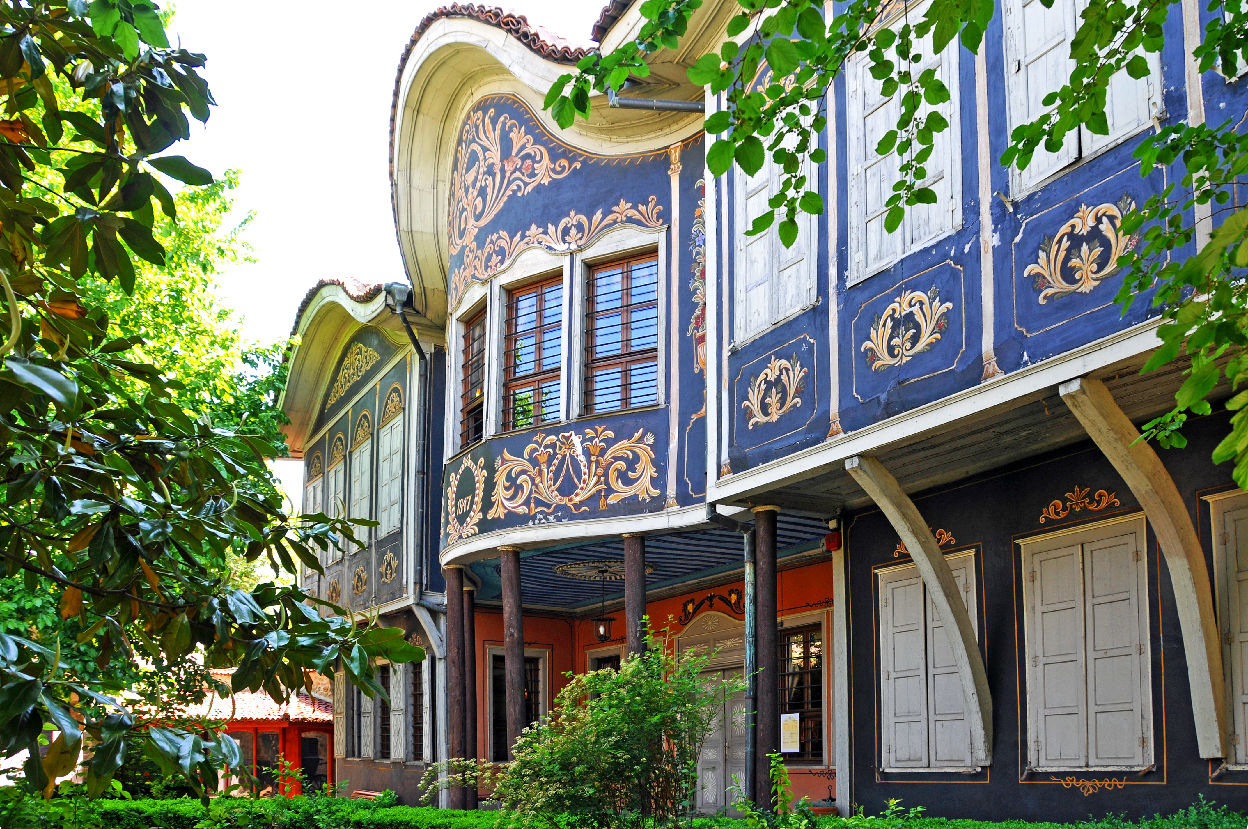 The Plovdiv Regional Ethnographic Museum. Since 1938, it has occupied the 1847 house of the rich merchant Argir Kuyumdzhioglu in the city's Old Town. The Plovdiv Regional Ethnographic Museum is a museum of ethnography (studies people in natural surroundings to develop theories about behaviors and culture). Since 1938, it has occupied the 1847 house of the rich merchant Argir Kuyumdzhioglu in the city's Old Town.